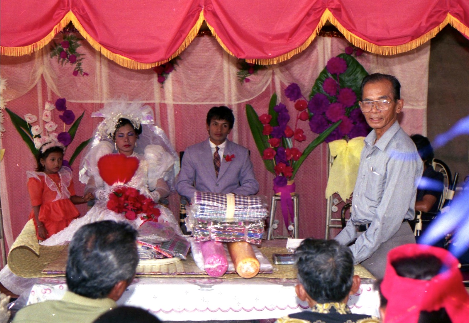 The exchange of cotton cloth (brideweath) at a To Pamona wedding 1991